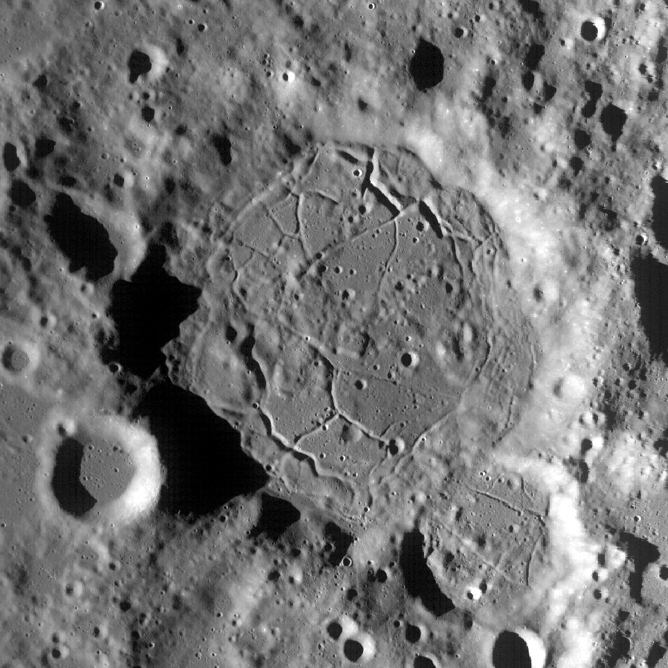 Crater Bunsen on the Moon, near western shore of Oceanus Procellarum. Smaller crater in the lower left is Bunsen D. Photo by Lunar Reconnaissance Orbiter, made with Wide Angle Camera on 13 January 2010 from altitude 54 km. Sun elevation is 11.2°. Width of the photo is 80 km, north is up.